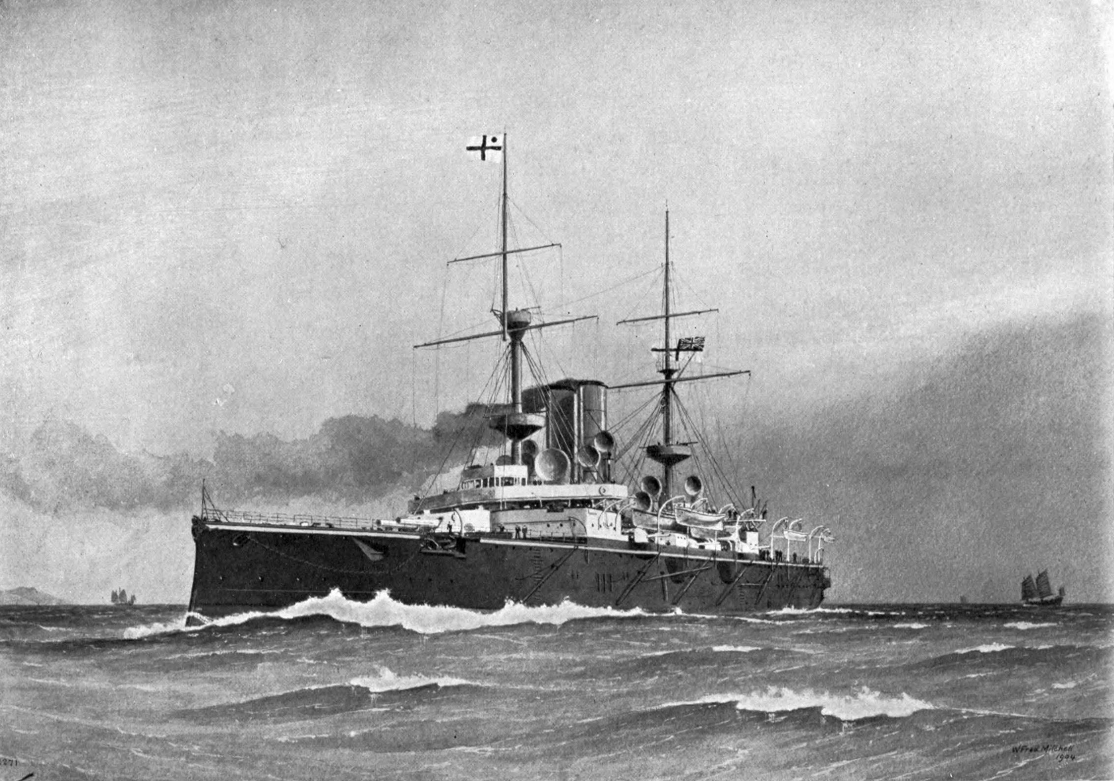 HMS Centurion